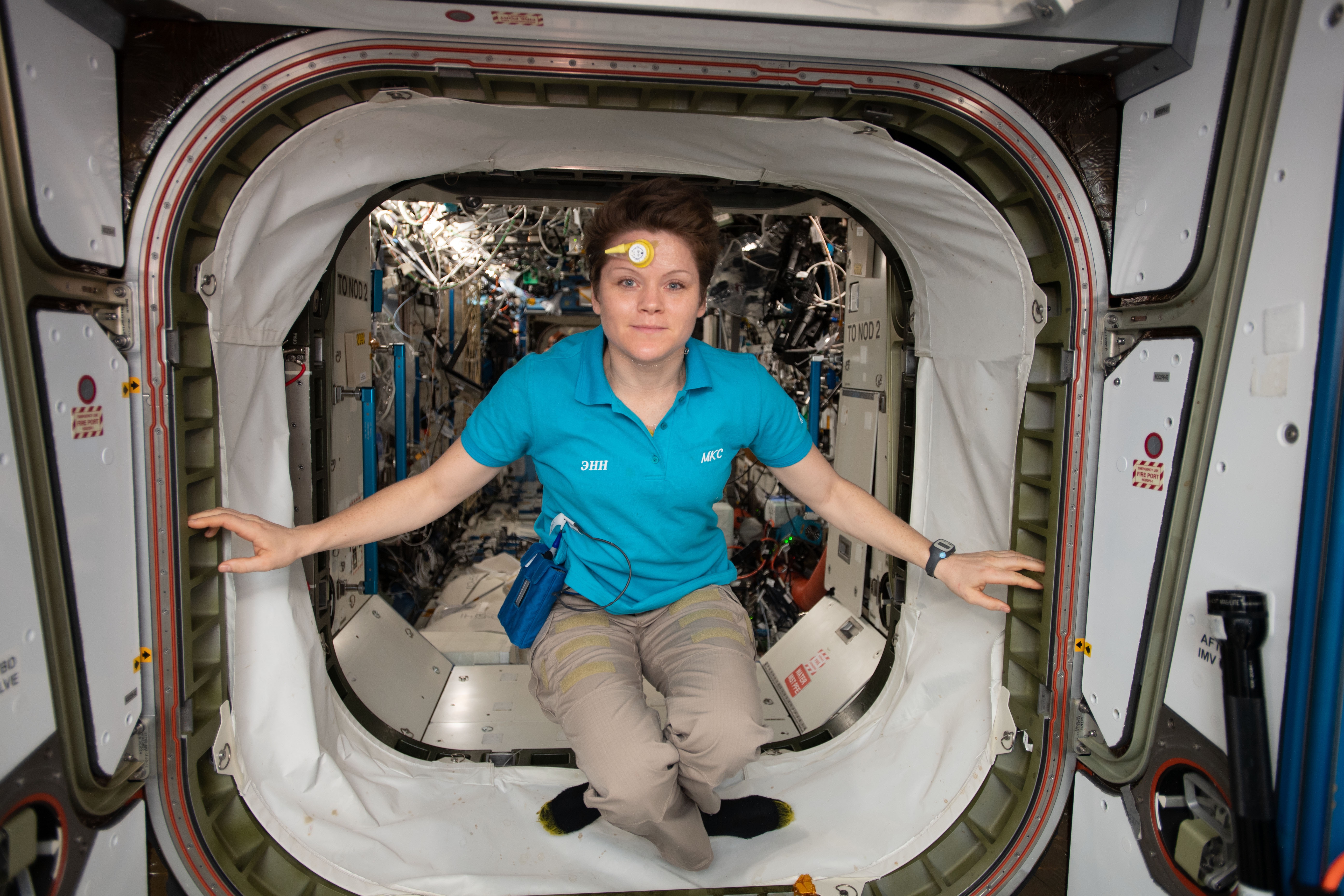 NASA astronaut and Expedition 58 Flight Engineer Anne McClain is pictured inside the vestibule between the Harmony module and the Destiny laboratory module. She is wearing a sensor on her forehead that is collecting data for the Circadian Rhythms experiment researching how an astronaut's “biological clock” changes during long-duration spaceflight.